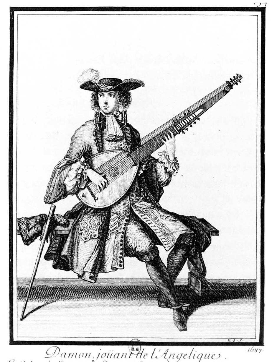 Musician playing an angelique.